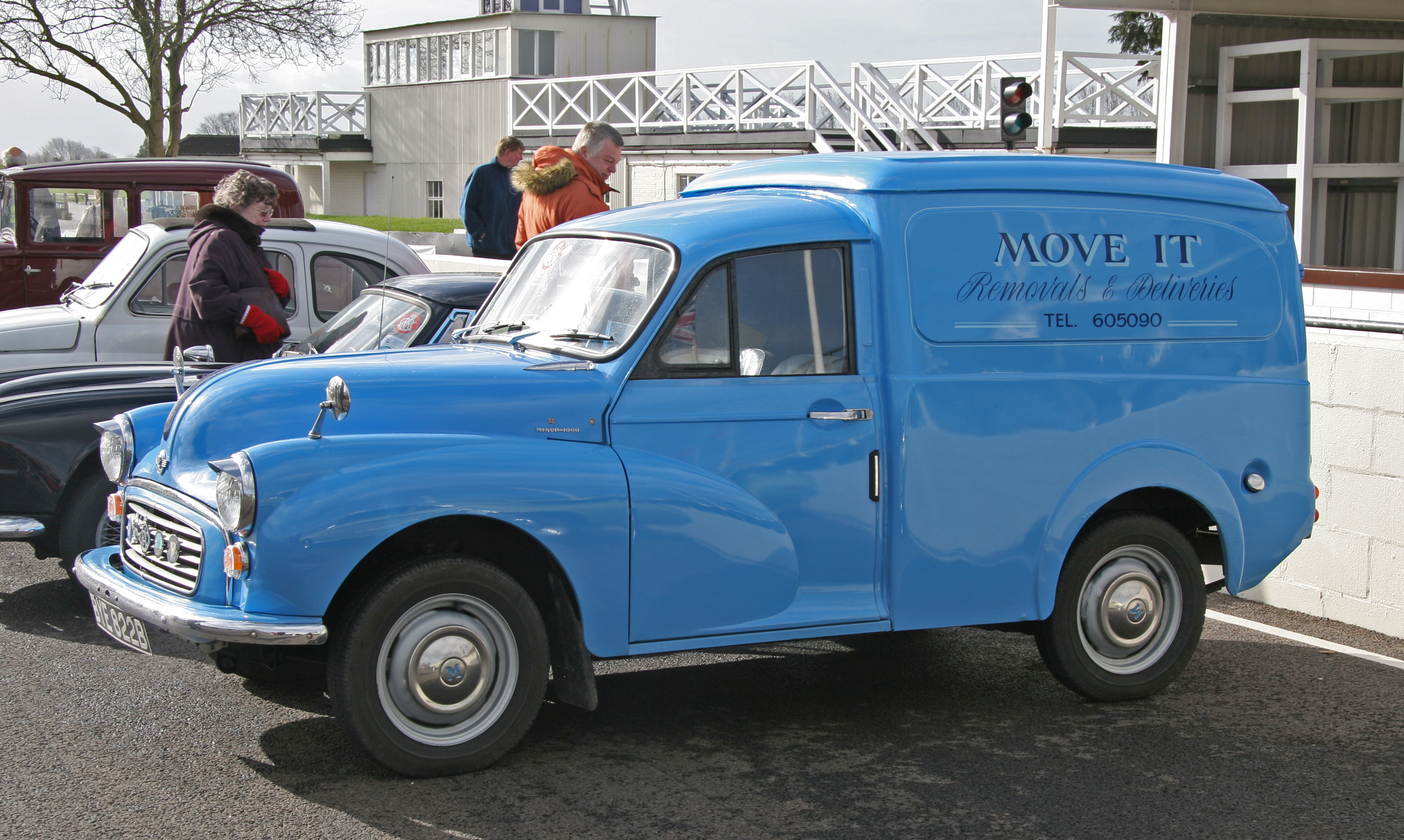 Morris Minor 1000 Van